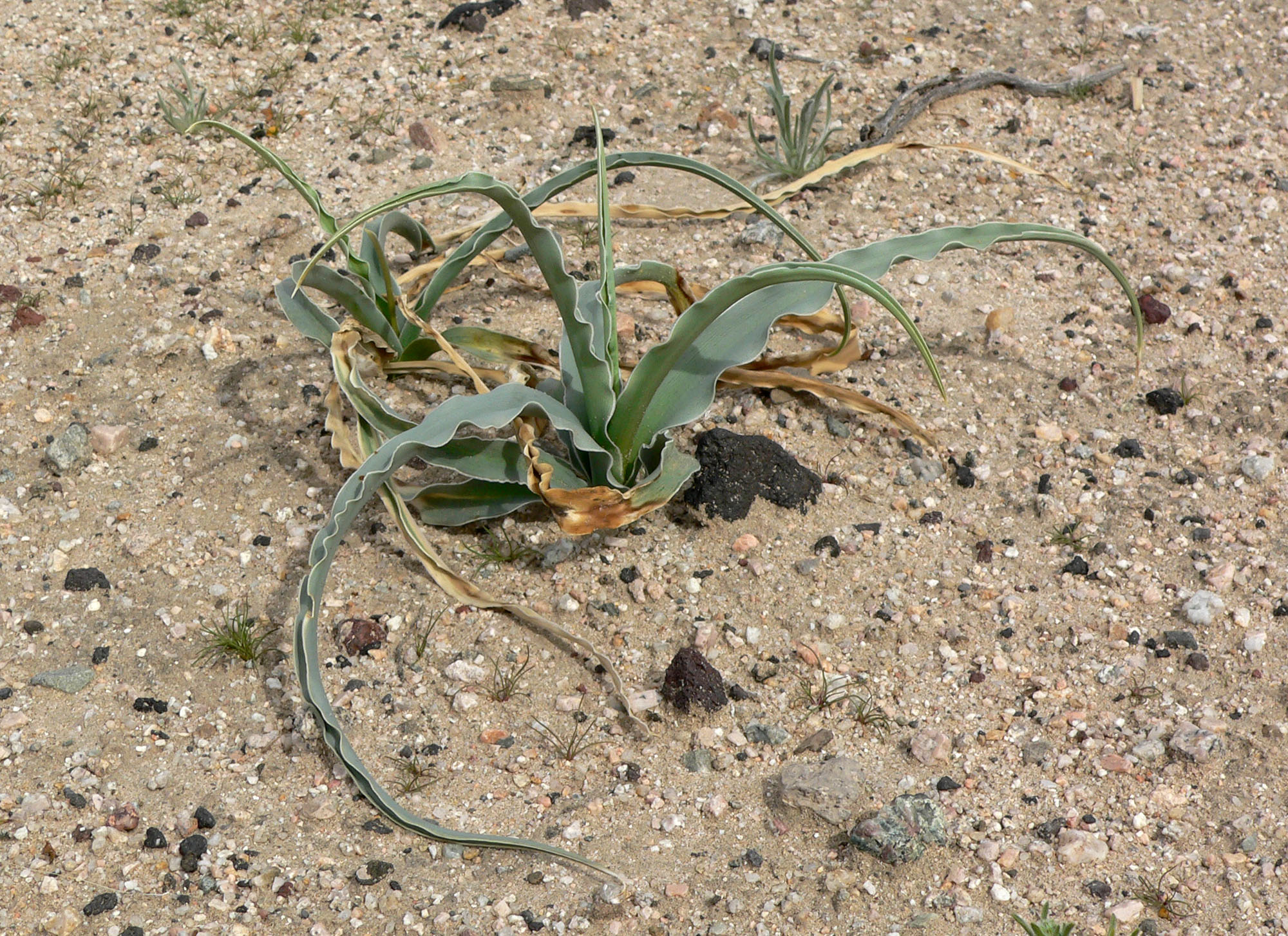 Hesperocallis undulata off the Old Mojave Road southeast of Little Cowhole Mountain, Mojave National Preserve, California